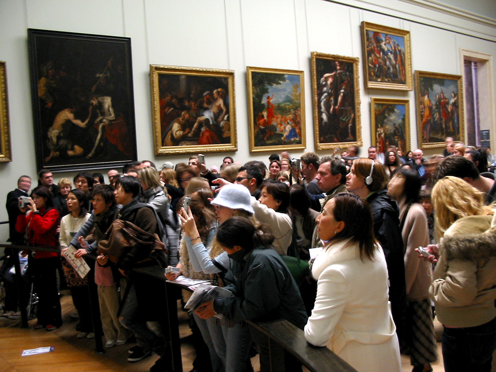 Horde of tourists in front of Mona Lisa. Own work, taken on 20th November, 2004.